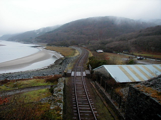 Cambrian Coast Railway, 3 km from Eglwys Fach, Ceredigion/Sir Ceredigion, Great Britain. Looking westwards from Fron-Goch towards Aberdovey, beside the Dovey estuary.